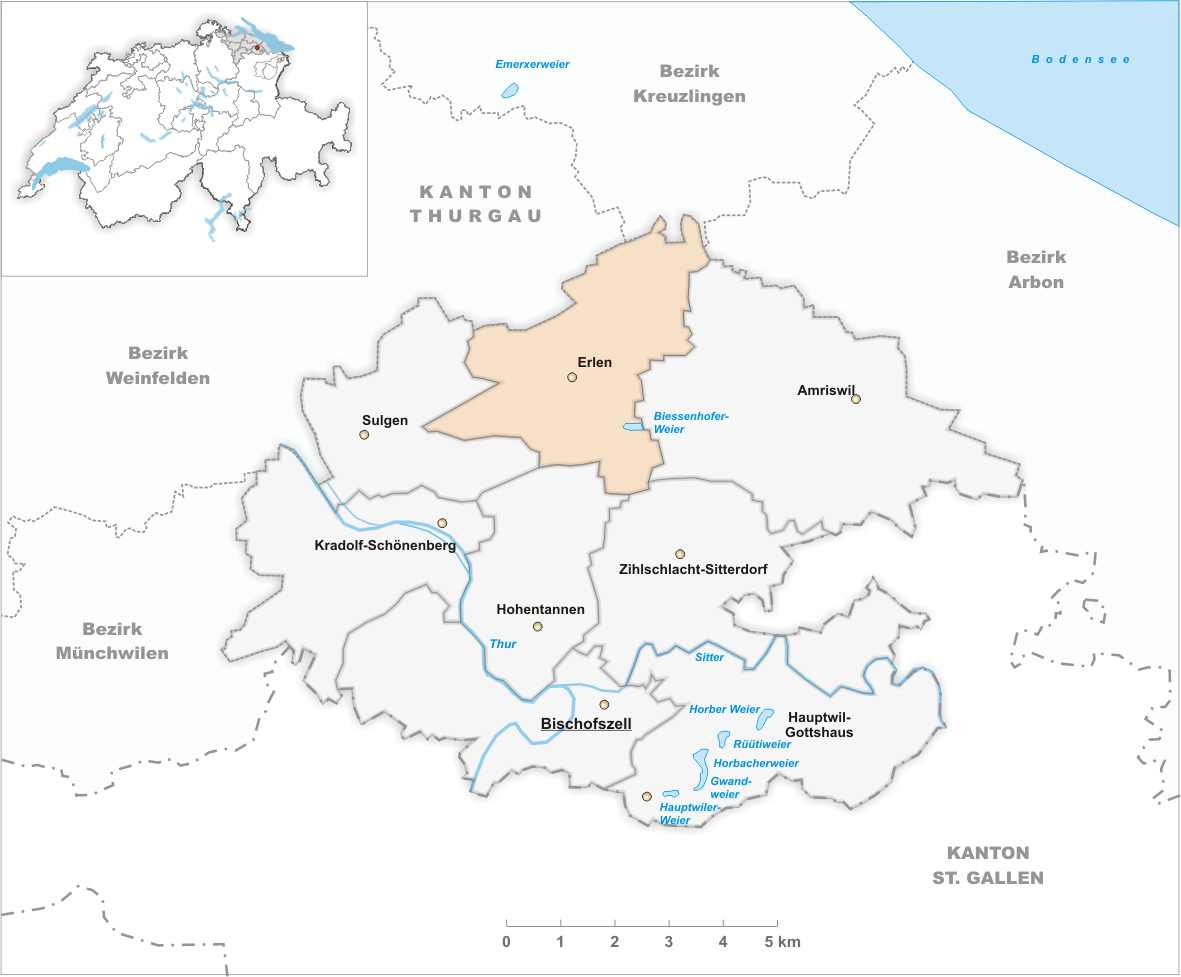 Municipality Erlen